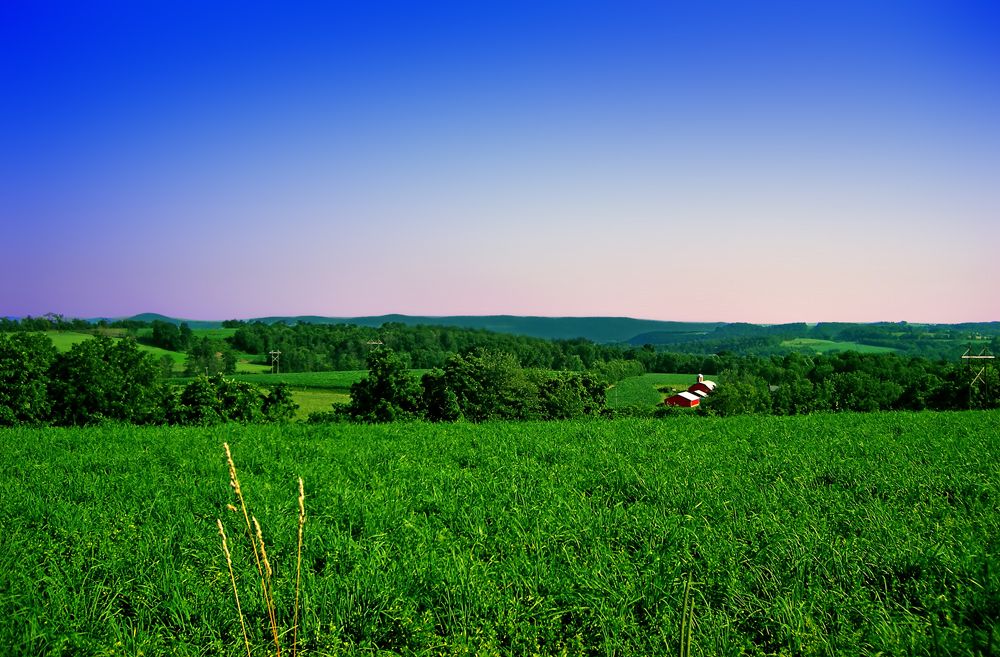 Rolling hills, Upper Mount Bethel Township, Northampton County. (Replaced with cropped version.)